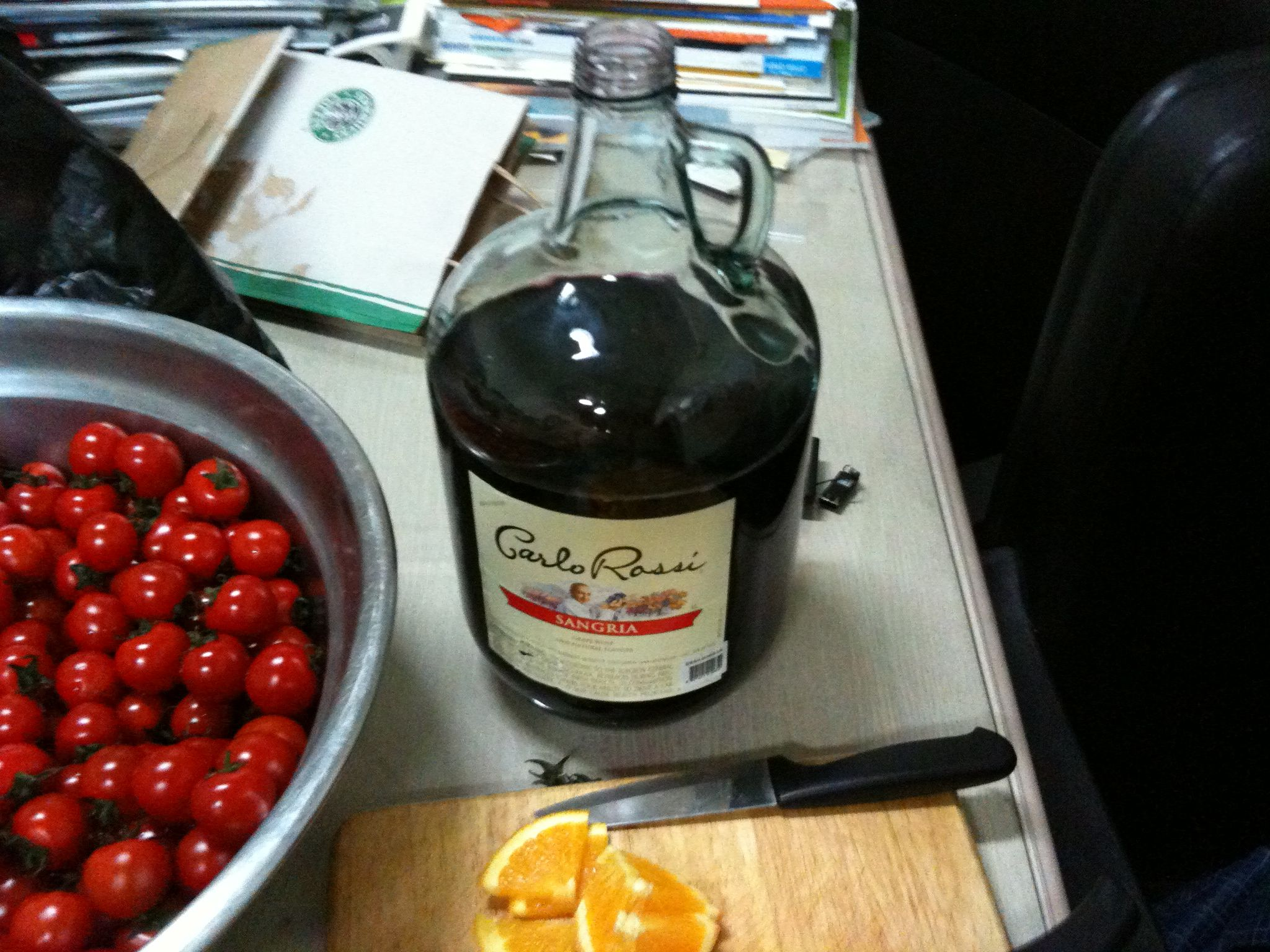 California jug wine being used in a Sangria recipe.